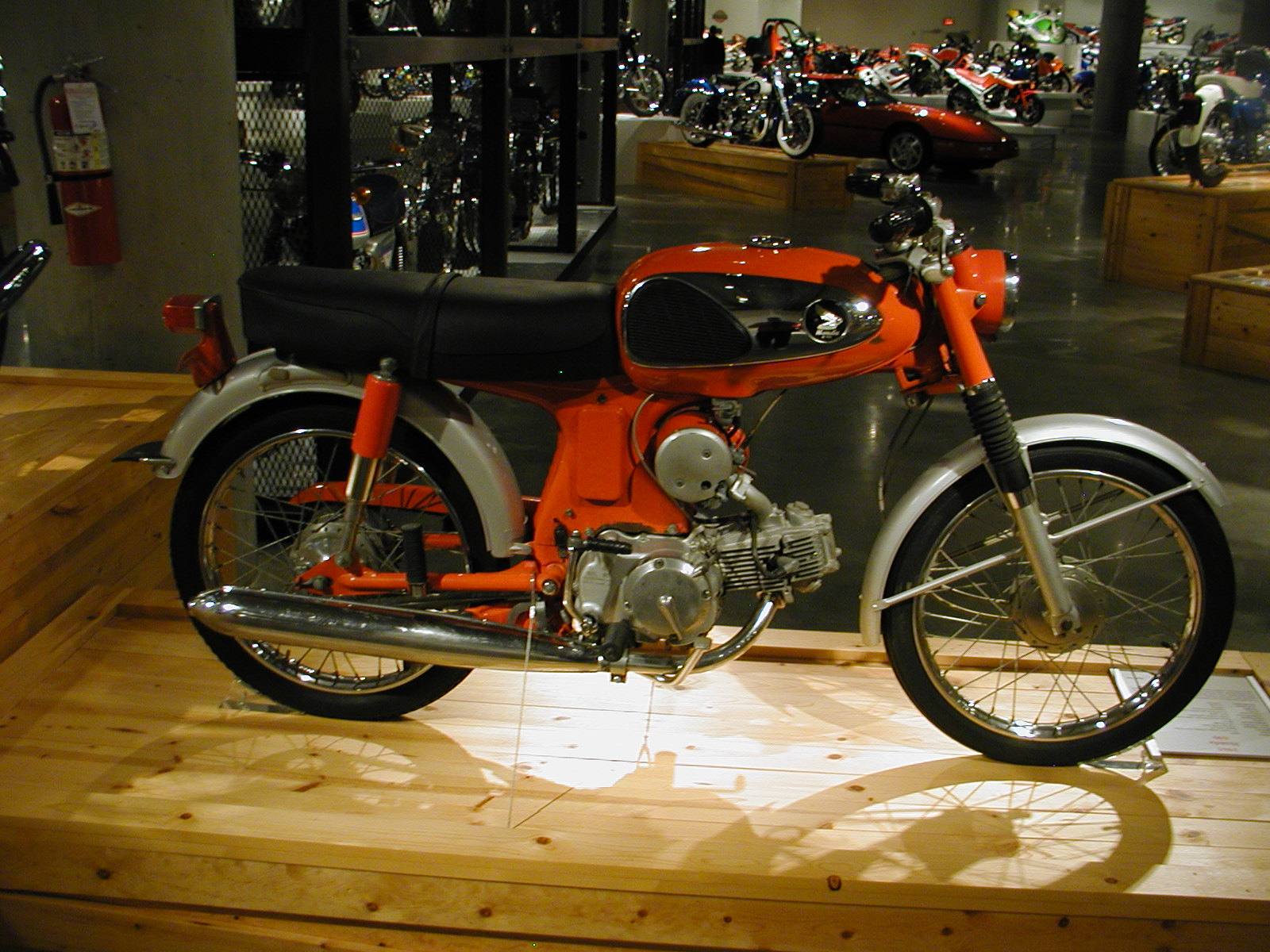 Barber Motorcycle Museum - Oct 22 2006 (122) 1965 Honda S90 / More Description is here